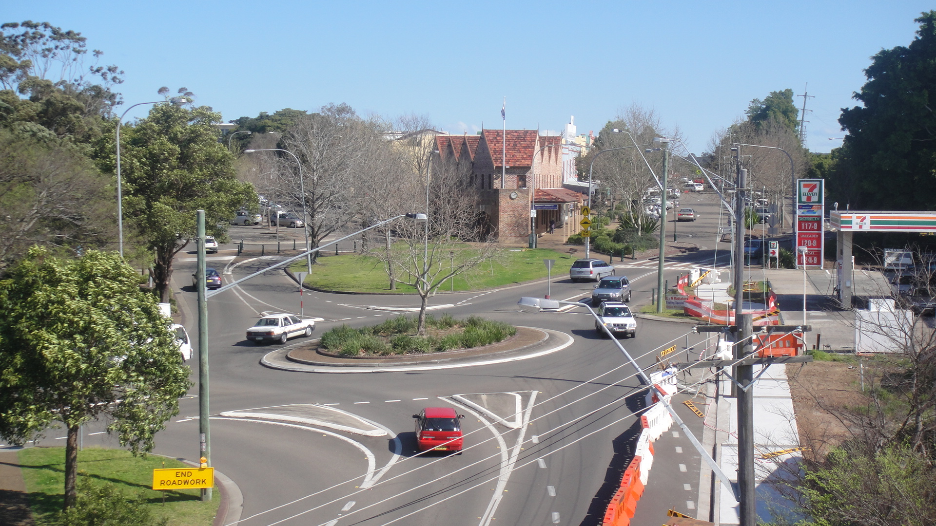 Overlooking the main commercial (or shopping) area of Sutherland, New South Wales. Picture taken by me, and is a more zoomed image than my previous overlooking sutherland images (Different picture, not a cropped one). Taken Sunday, 5 September 2010. Anoldtreeok (talk) 08:23, 5 September 2010 (UTC)